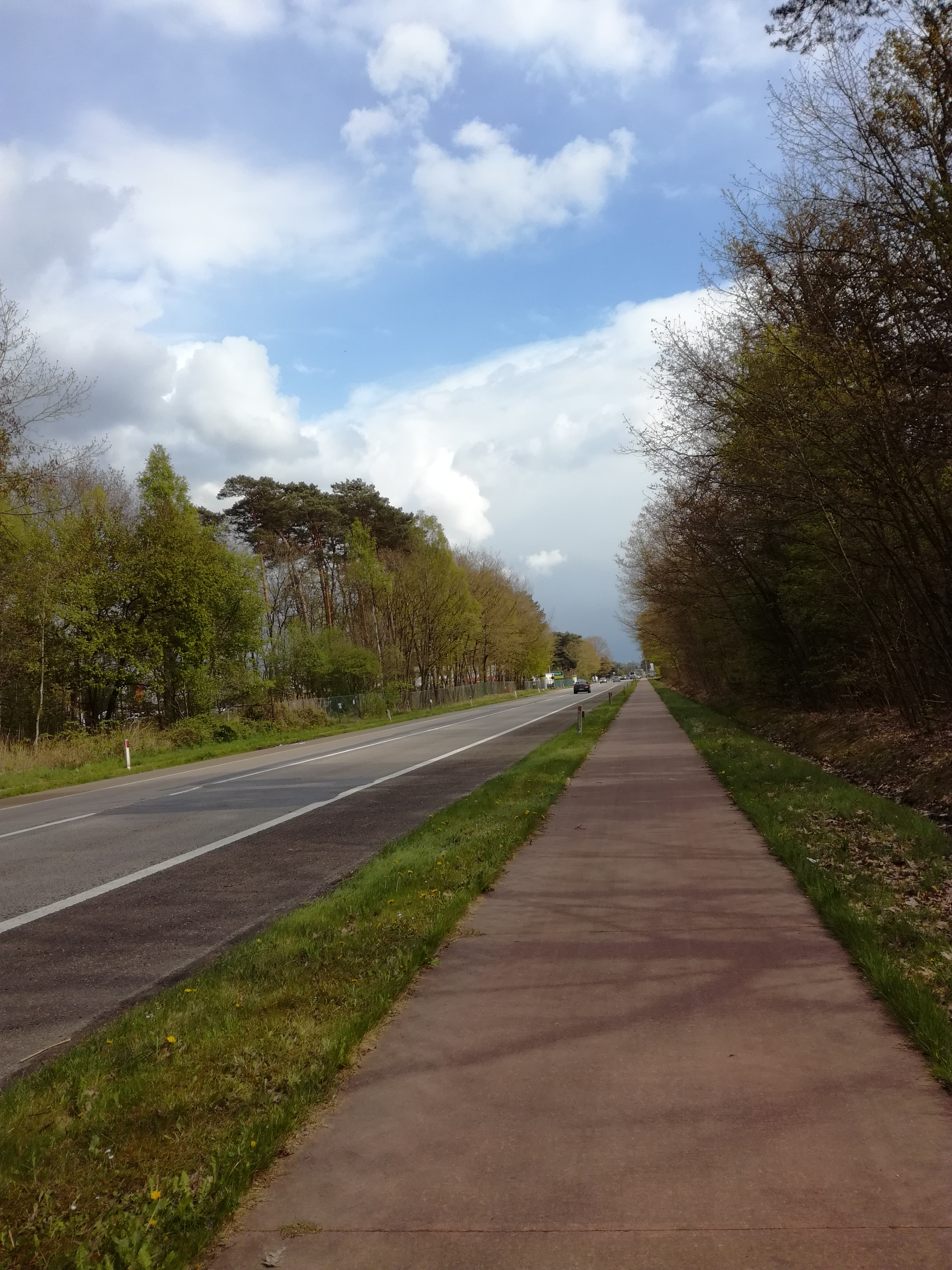 N72 in Zonhoven